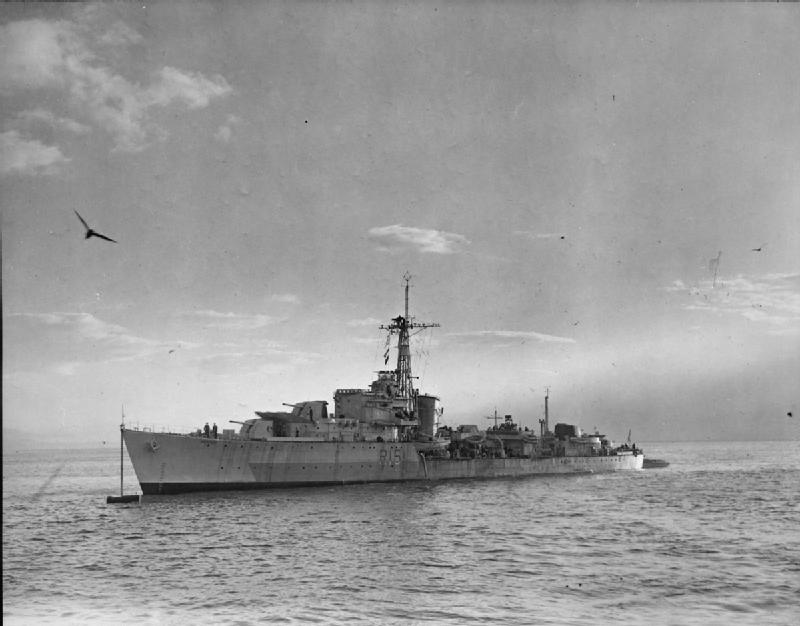 Photograph of British C class destroyer HMS Cavendish, on completion.